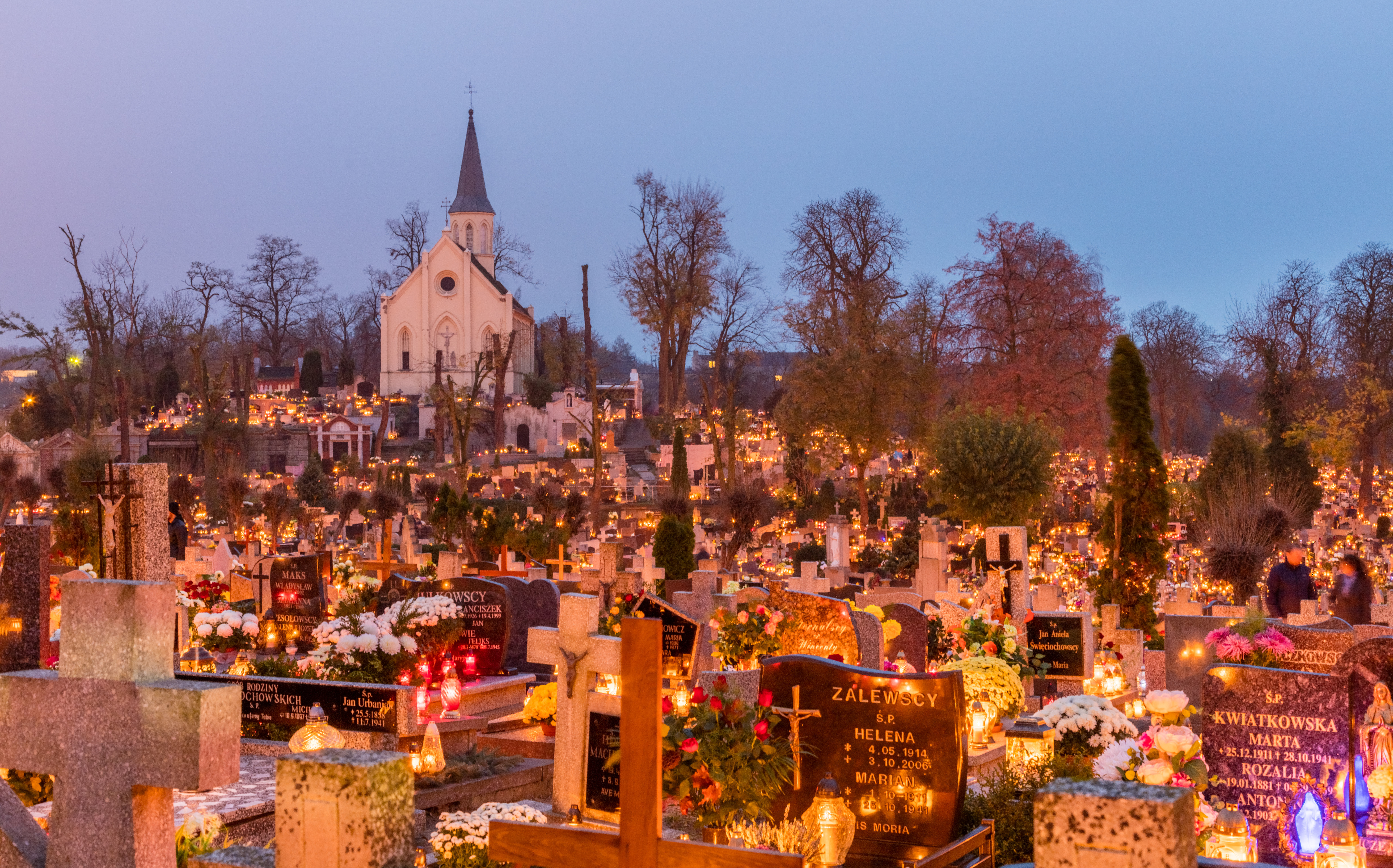 All Saints Day, Holy Cross Cemetery in Gniezno, Poland